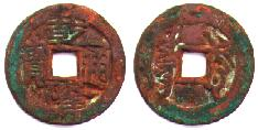 25.5 mm Obv.: Ch'ien Lung T'ung Pao Rev.: Manchu Yerkiyang - Yarkand Mint, Sinkiang province Rarity: Rare Ref.: WC C#35-2 This coin is somewhat thicker than the other Ch'ien Lung coins shown here. The metal, instead of the common bright brass, is a very red colour. Also unlike the other coins here, the Manchu mintmark for the Yarkand Mint does away with the Boo character on the reverse left. Dynasty: Ch'ing (1644 - 1911 a.d.) Emperor: Kao Tsung (1736-1795 a.d.) Reign Title: Ch'ien Lung (1736-1795 a.d.)